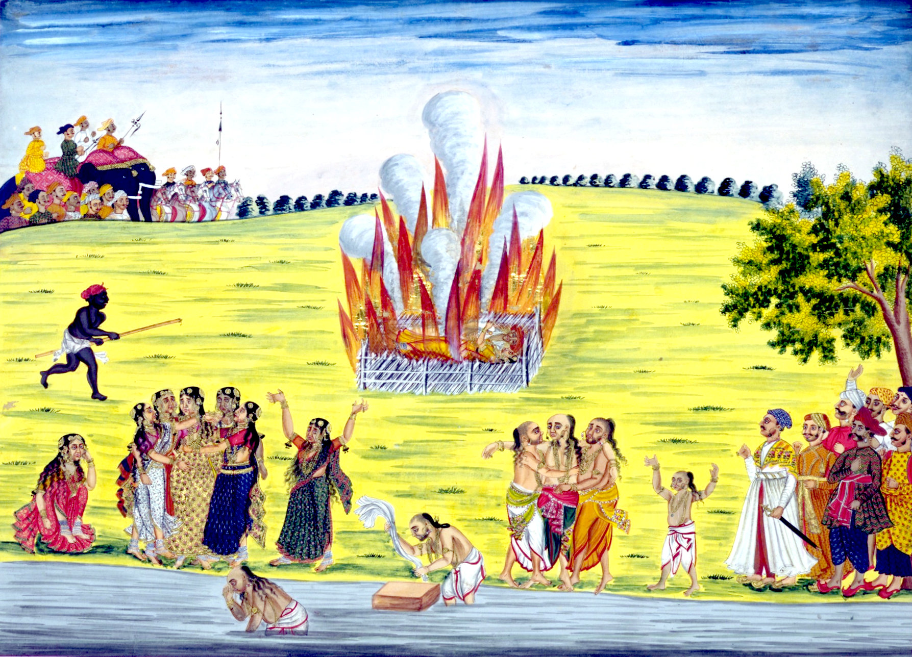 The pictures made by Indian artists for the British in India are called Company paintings. This one depicts the practice of sati (suttee) or widow-burning. The word is the Sanskrit for 'good woman' or 'true wife'. It was applied to the Hindu widow who makes the supreme sacrifice by following her husband onto the funeral pyre. Although suppressed in the 19th century, isolated instances of sati still occur in India even today.